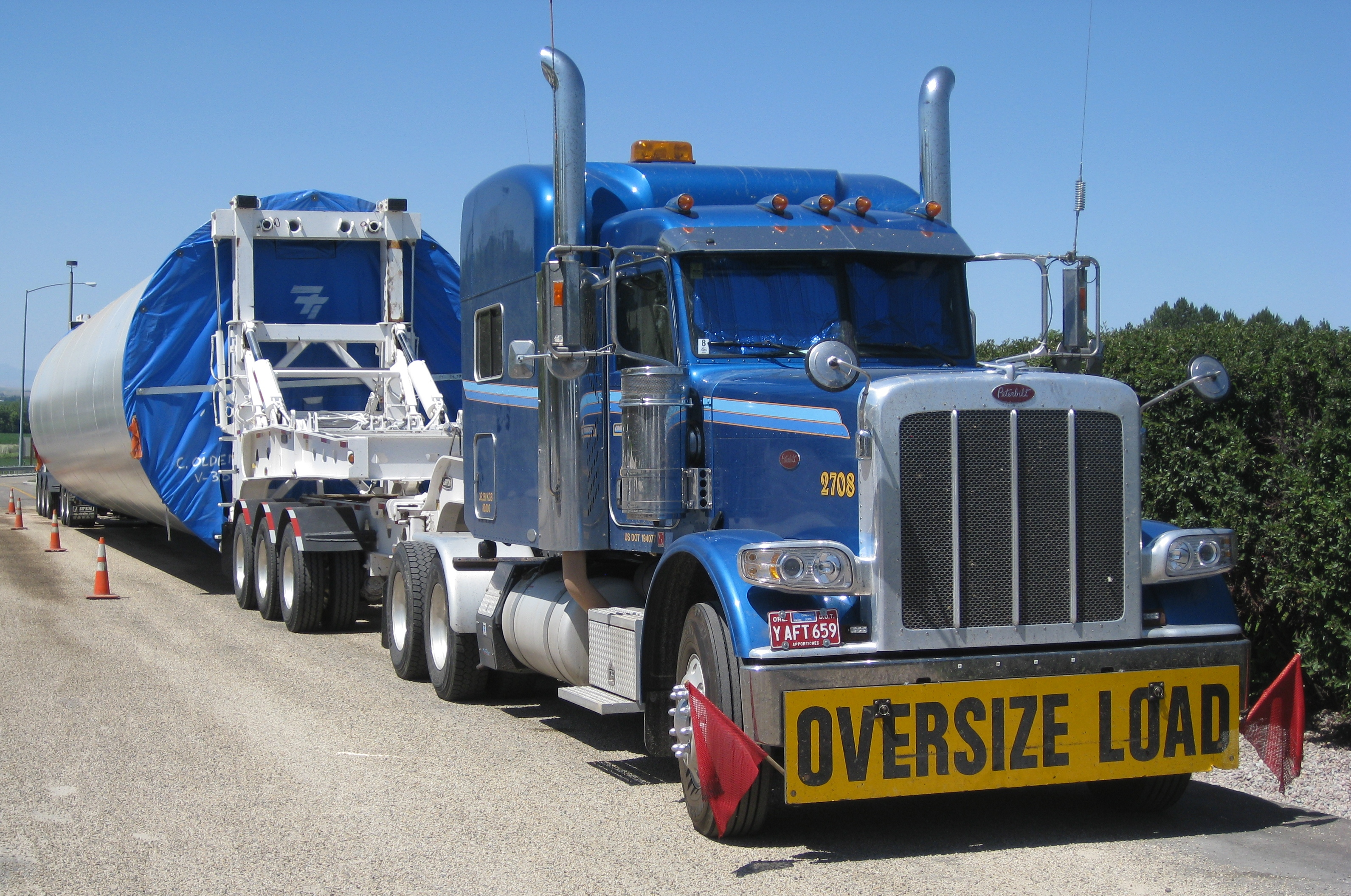 A wind turbine mast is transported by a truck.